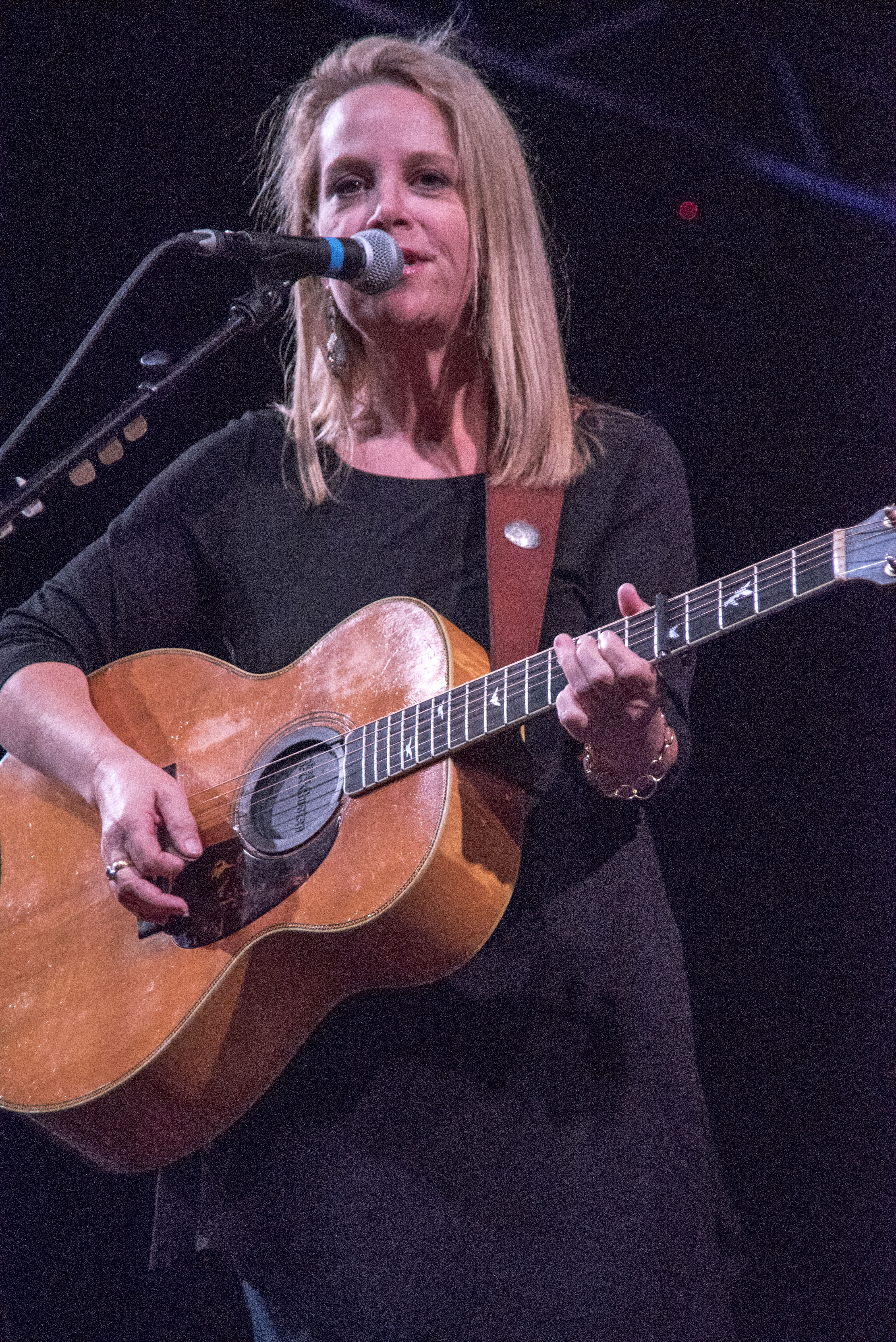 Underneath the Stars Festival, Cannon Hall Farm, Cawthorne